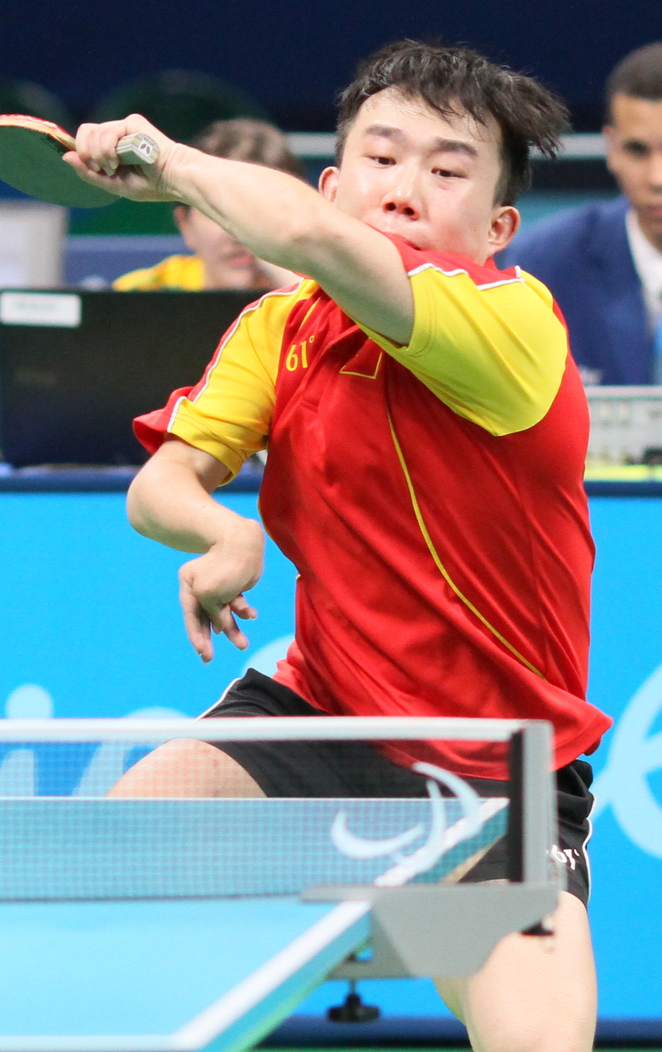 Lian Hao